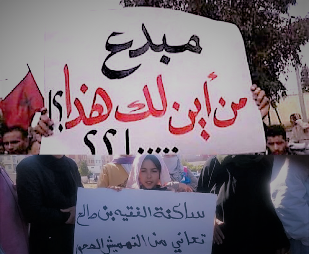 Fquih Ben Salah or Fkih Ben Saleh is a small city in Morocco, located in the region of Béni Mellal-Khénifra, in the historical region of Tadla.